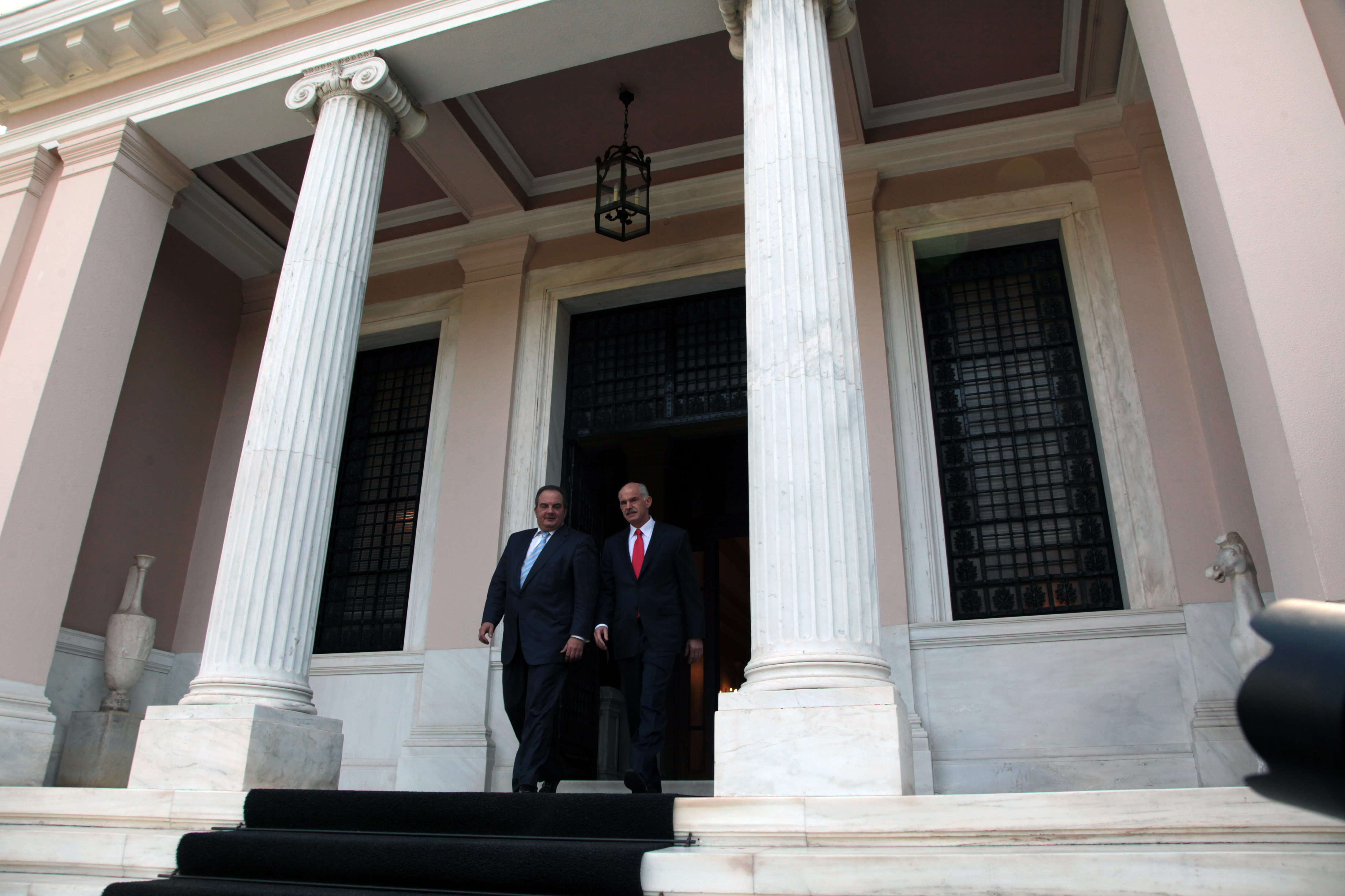 The 182nd Prime Minister of Greece George Papandreou with the former Prime Minister Kostas Karamanlis in the ceremony for the official handover at the Maximos Mansion in Athens, Greece, Oct. 6, 2009.